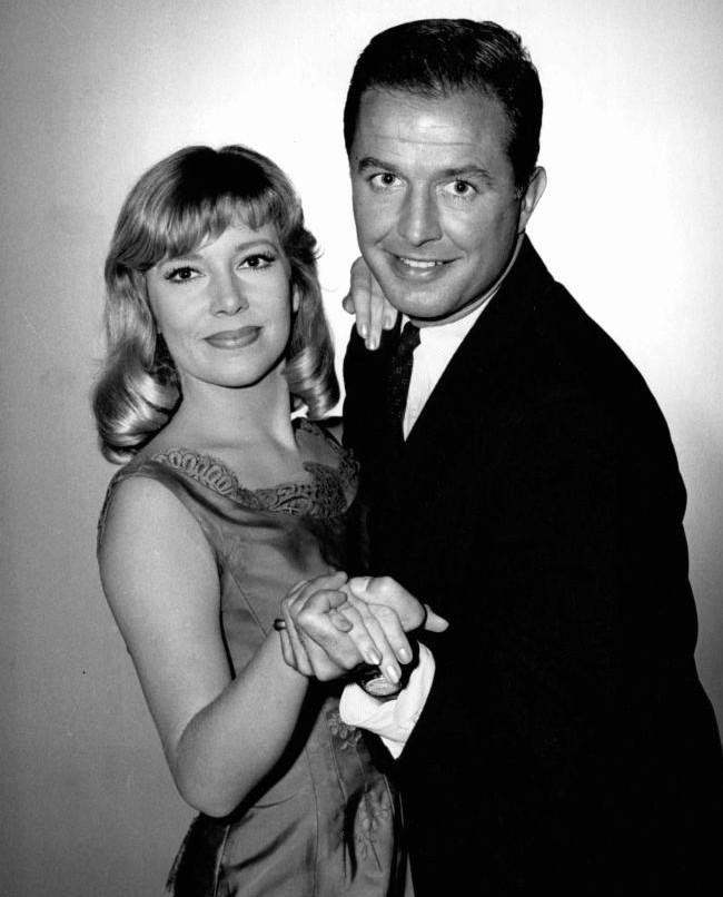 Photo of Sally Todd and Dean Miller in the TV sitcom The Tab Hunter Show.